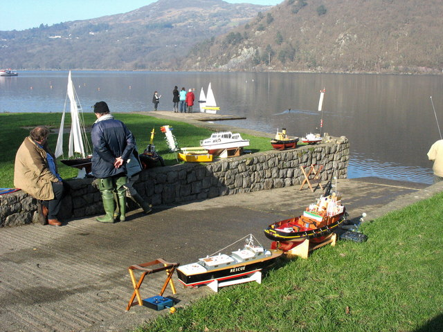 Model boat enthusiasts on the shores of Llyn Padarn